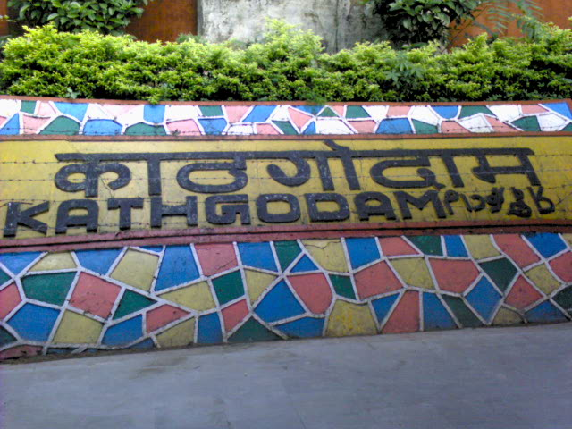 Kathgodam Rail Station